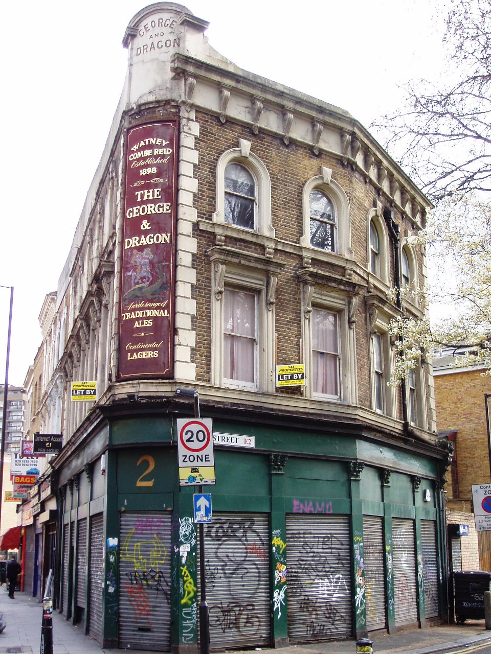 Taken during the day when it's closed, though this pub is surprisingly still very much open for the evening crowd. It gets a good FAP review, but terrible comments in BITE. Address: 2 Hackney Road. Owner: Watney Combe Reid (former). Links: Fancyapint Beer in the Evening Dead Pubs (history)